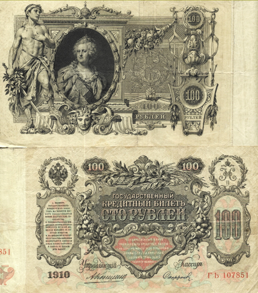 1910 Russian Empire 100 rubles bill with Tzar Catherina portrait